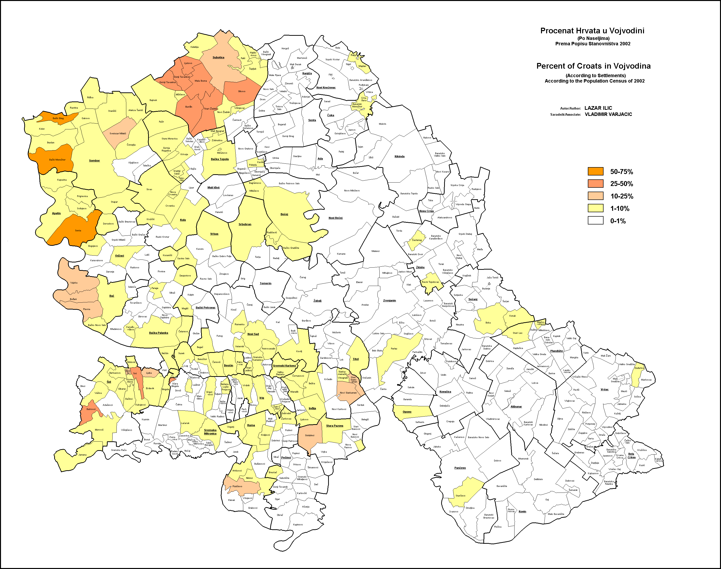 Map of Vojvodina, the northern part of Serbia. It shows percent of Croats in each census settlement, according to the 2002 population census. The map is not yet done